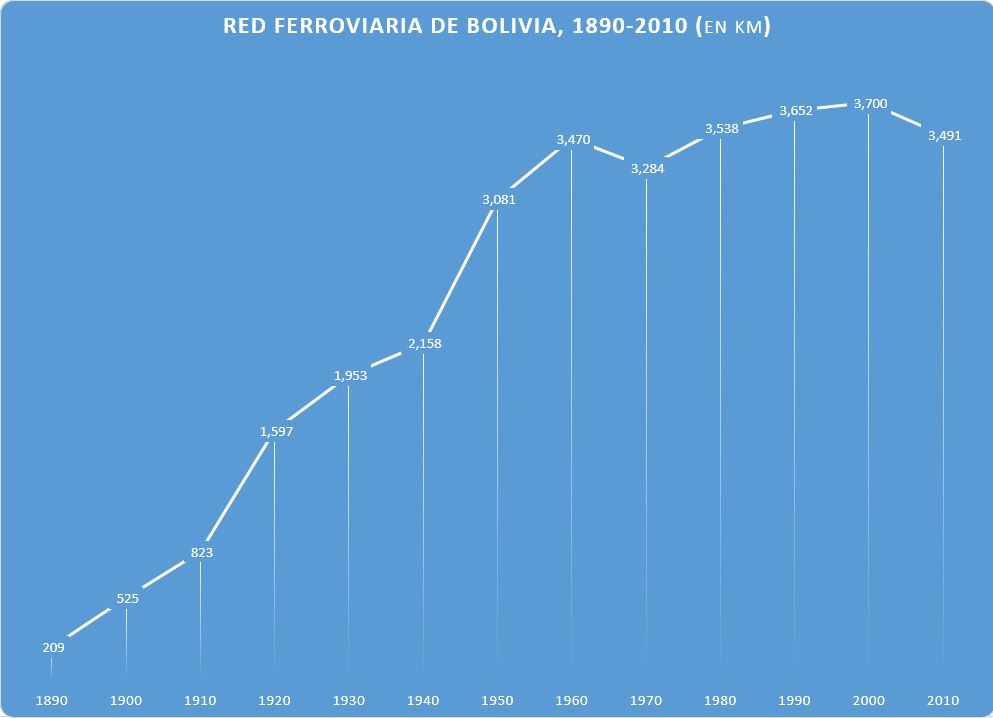 Graph of railway extension in Bolivia from 1890 to 2010